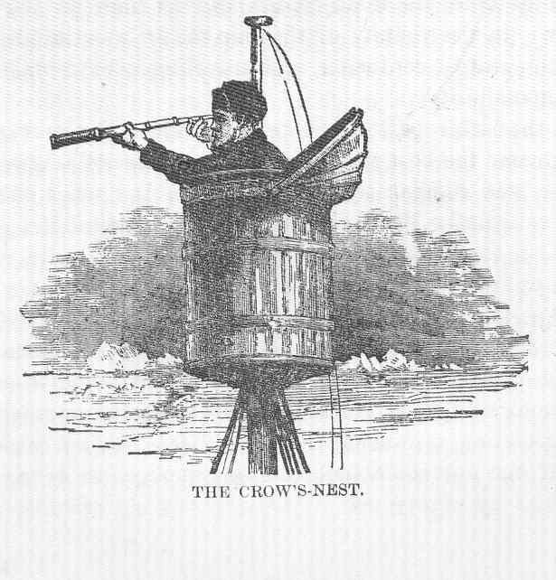 Crow's-Nest Subject: Ship handling, Navigation Tag: Vessels